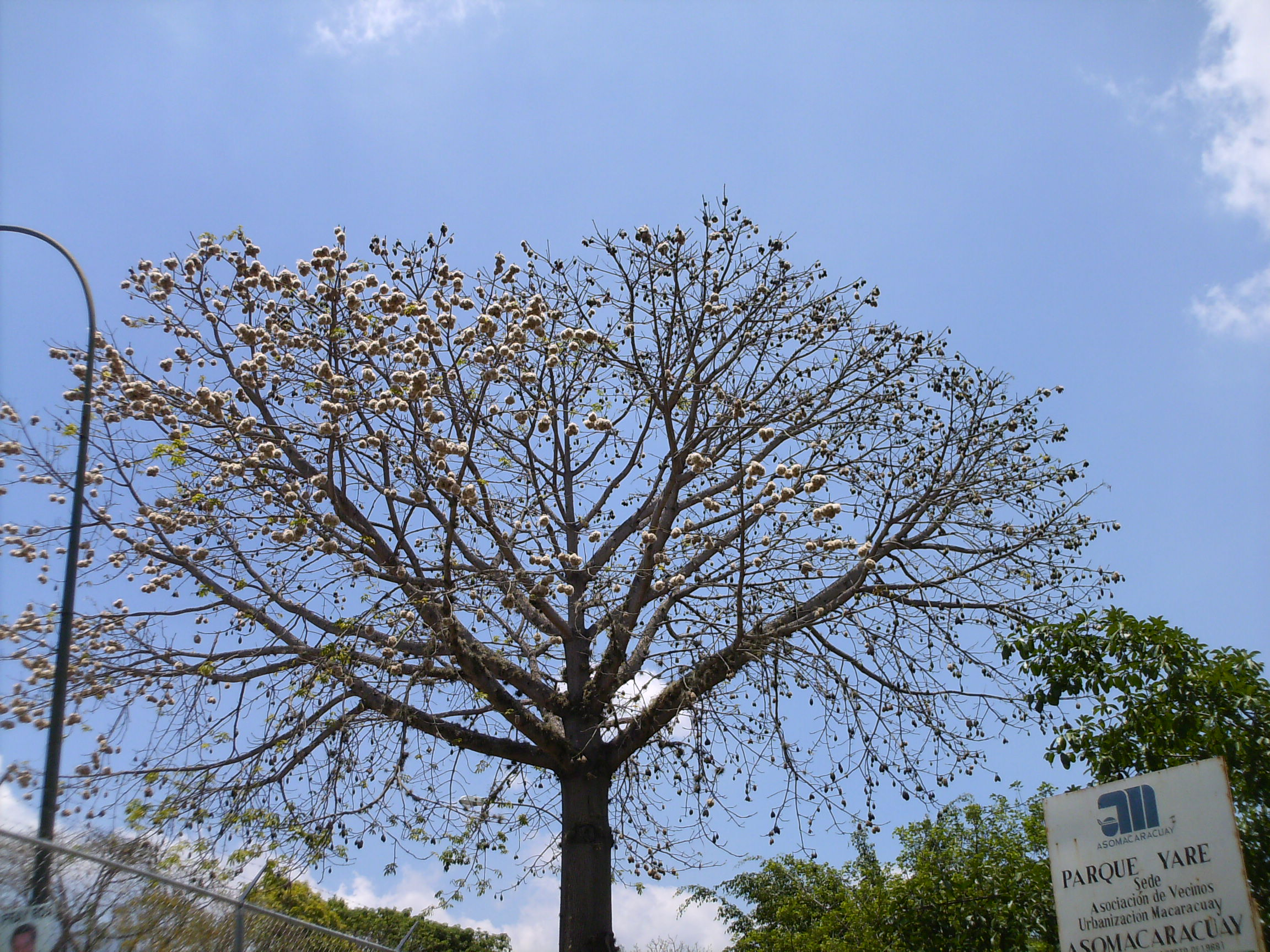 Ceiba pentandra with fruits (to the right side) and kapok surrounding seeds